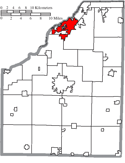 Map of the municipal and township boundaries of Wood County, Ohio, United States, as of the 2000 census, with the location of the city of Perrysburg highlighted. Township borders are shown only in unincorporated areas in order to differentiate incorporated and unincorporated areas more clearly.